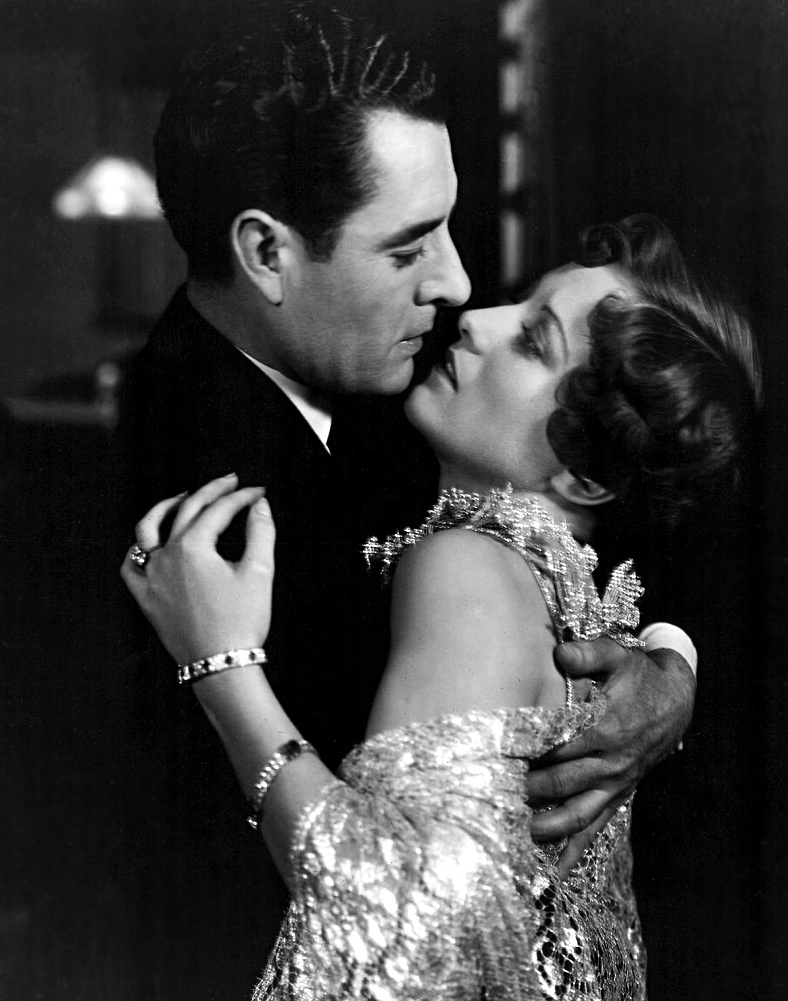 Original publicity photo of Joan Crawford and John Gilbert for the film Four Walls (1928).